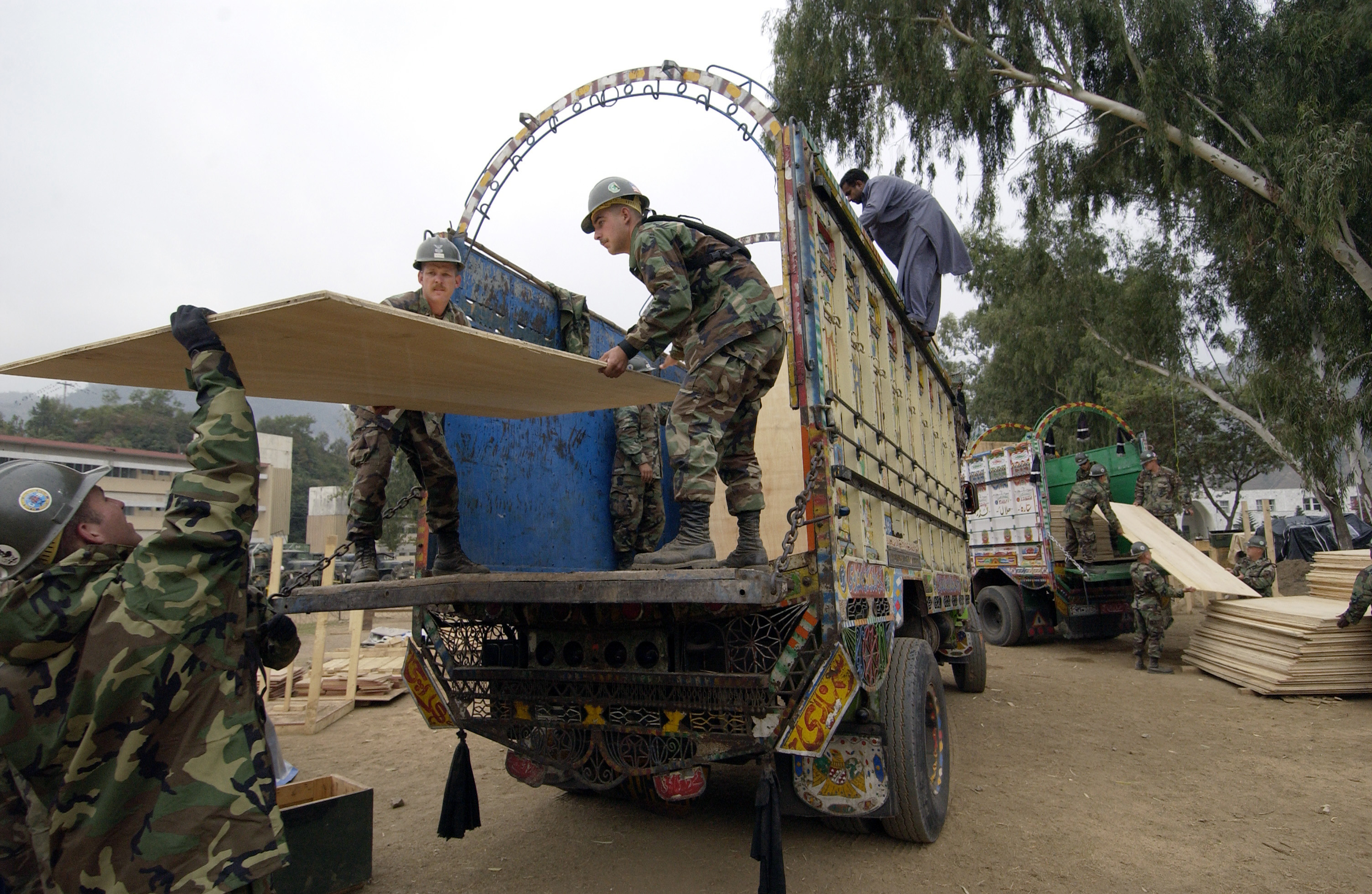 Muzaffarabad, Pakistan (Nov. 10, 2005) - U.S. Navy Seabees assigned to Naval Mobile Construction Battalion Seven Four (NMCB-74), unload plywood from a truck in Muzaffarabad, Pakistan. The United States is participating in a multi-national assistance and support effort led by the Pakistani Government to bring aid to the victims of the devastating earthquake that struck the region on October 8th, 2005. U.S. Air Force photo by Airman 1st Class Barry Loo (RELEASED)